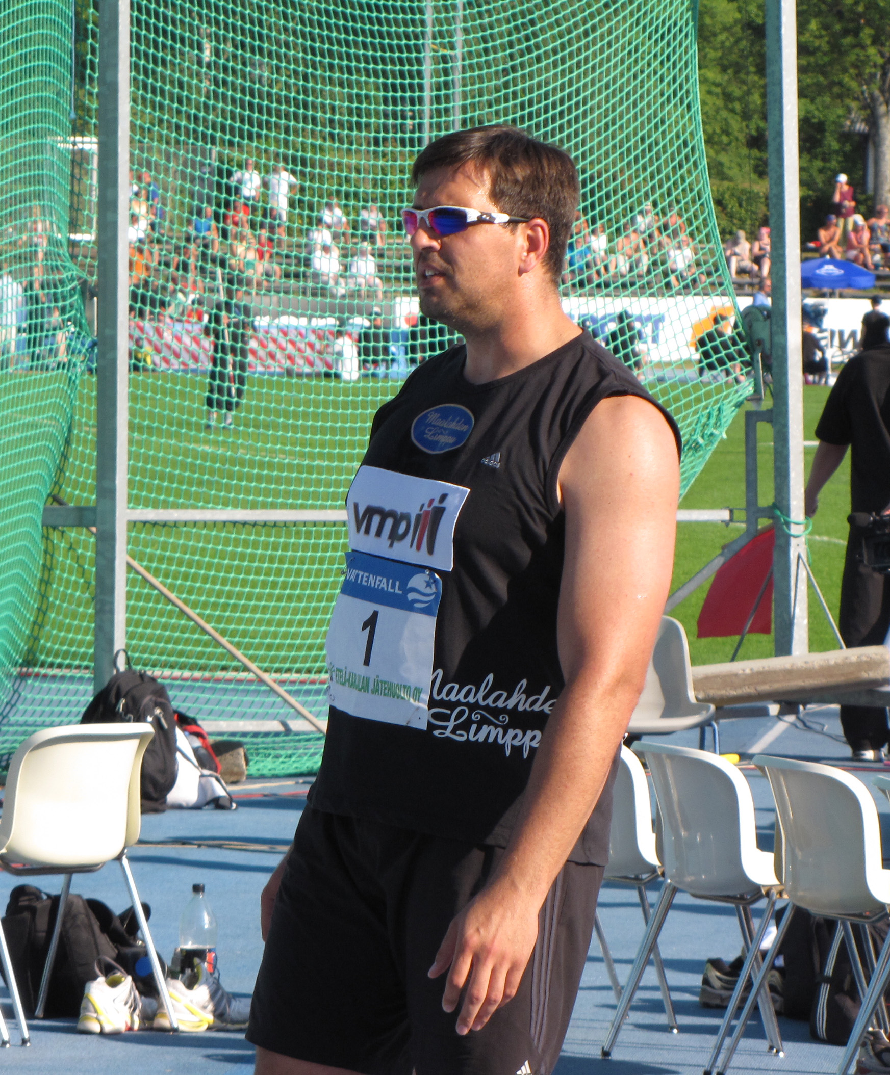 Finnish (South African born) discus thrower Frantz Kruger at Lappeenranta Games 2010.